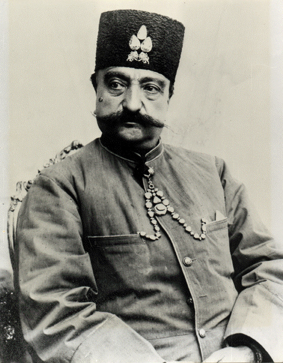 Nasser al-Din Shah Qajar (1831-1896), Shah of Persia from 17 September 1848 until his assassination on 1 May 1896.